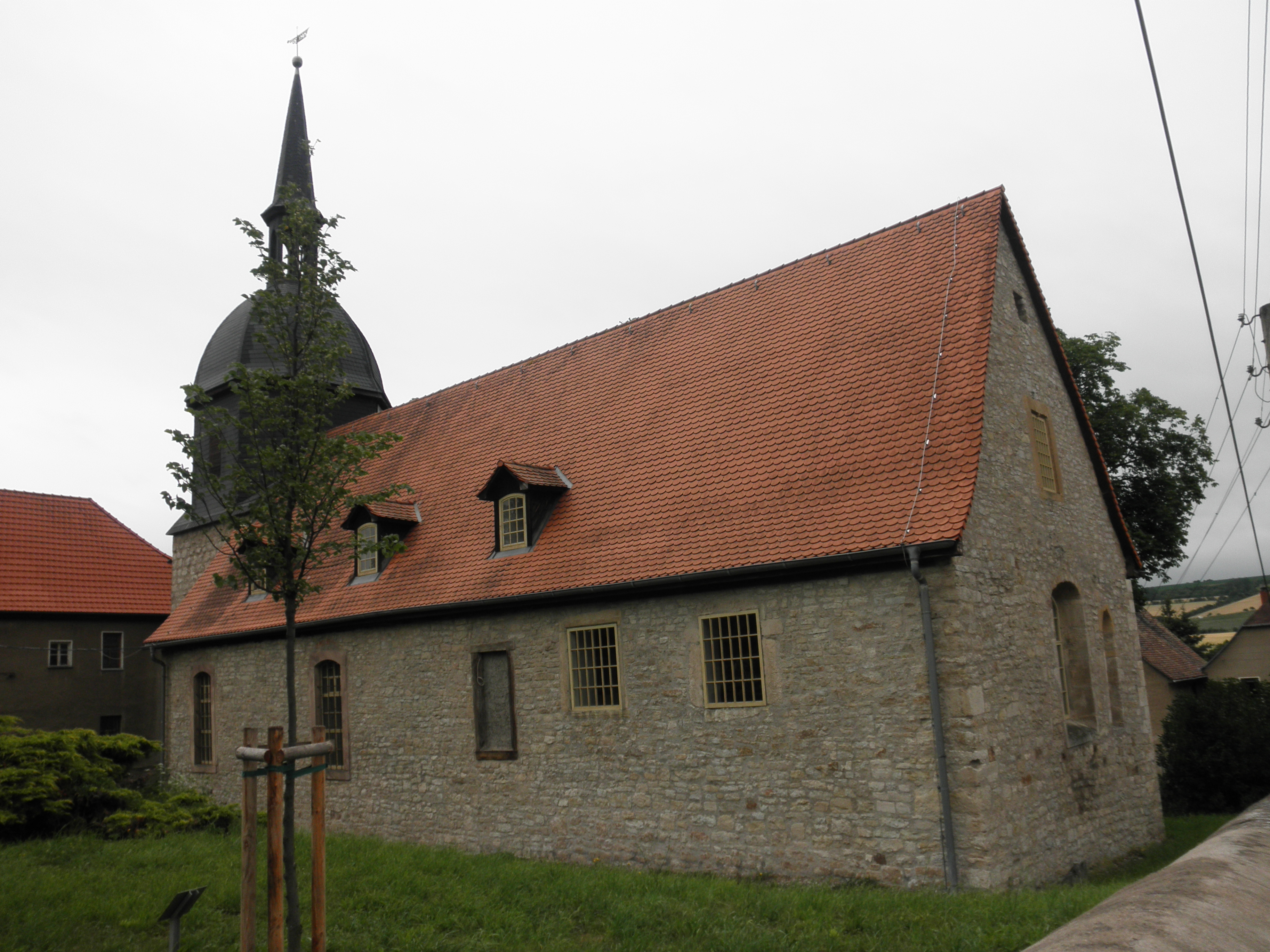 Church in Denstedt in Thuringia